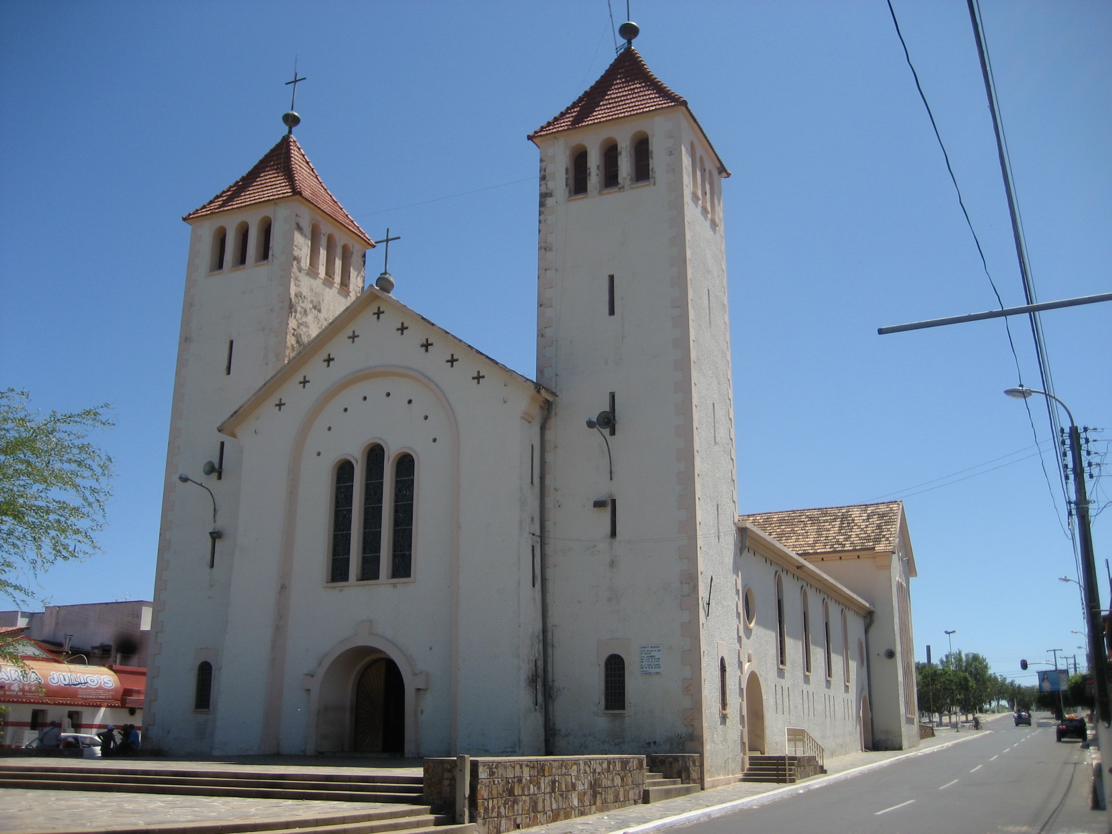 Our Lady Of Remedies Cathedral in Piripiri, Piauí